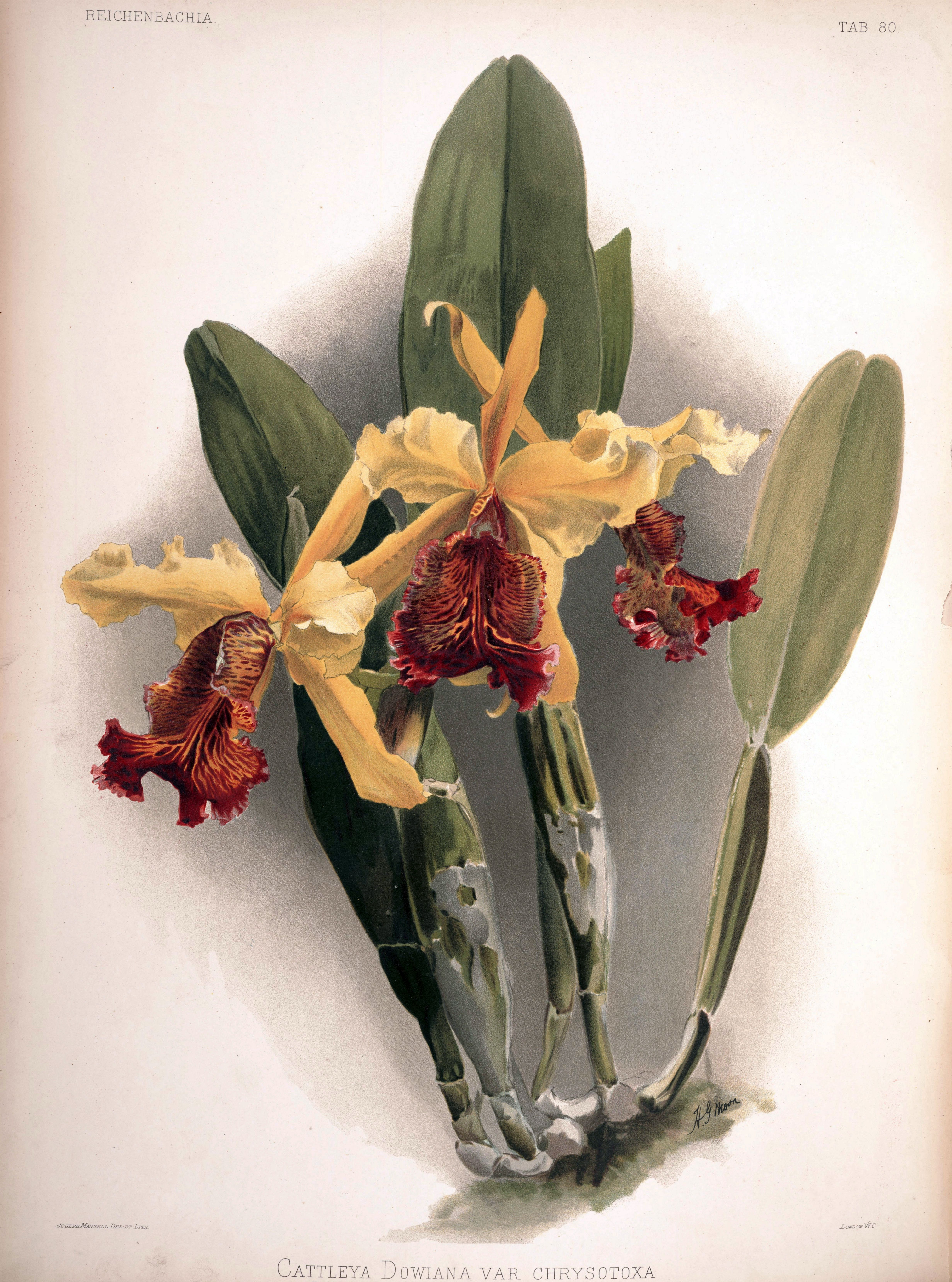 Cattleya dowiana var. aurea as syn.: Cattleya dowiana var. chrysotoxa